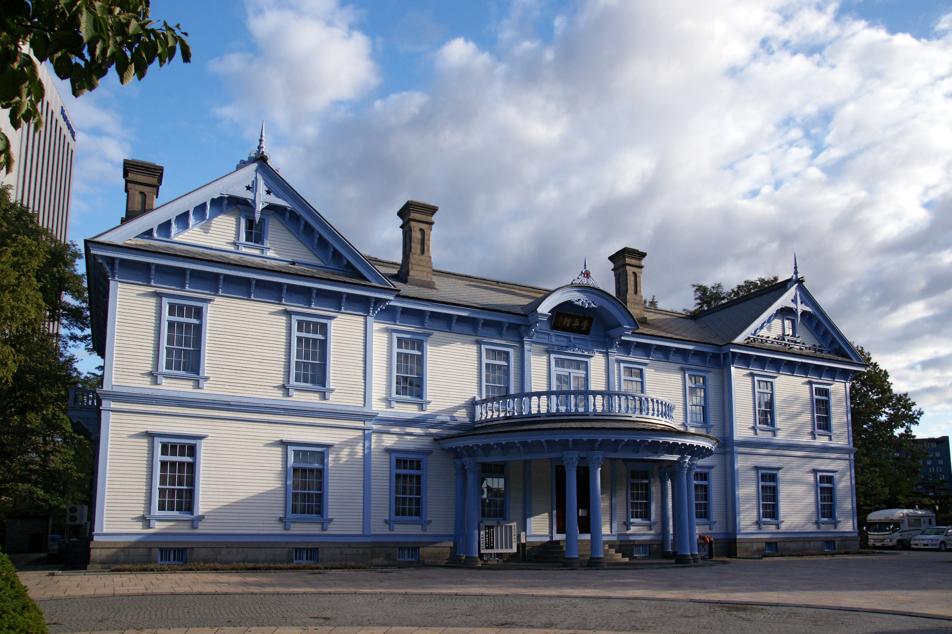 Hoheikan, Sapporo, Hokkaido prefecture, Japan